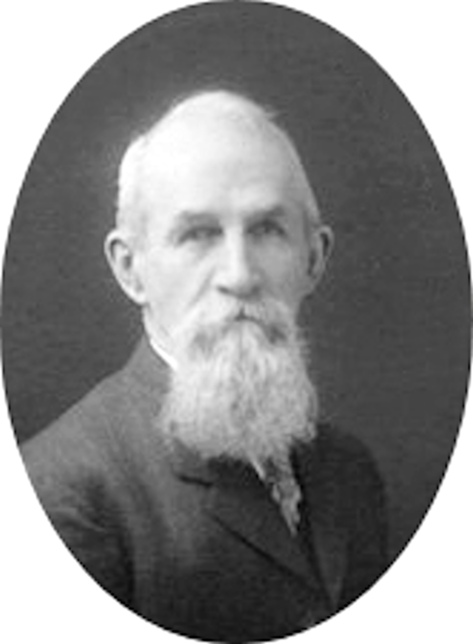 MoH winner Abraham Greenawalt 1905